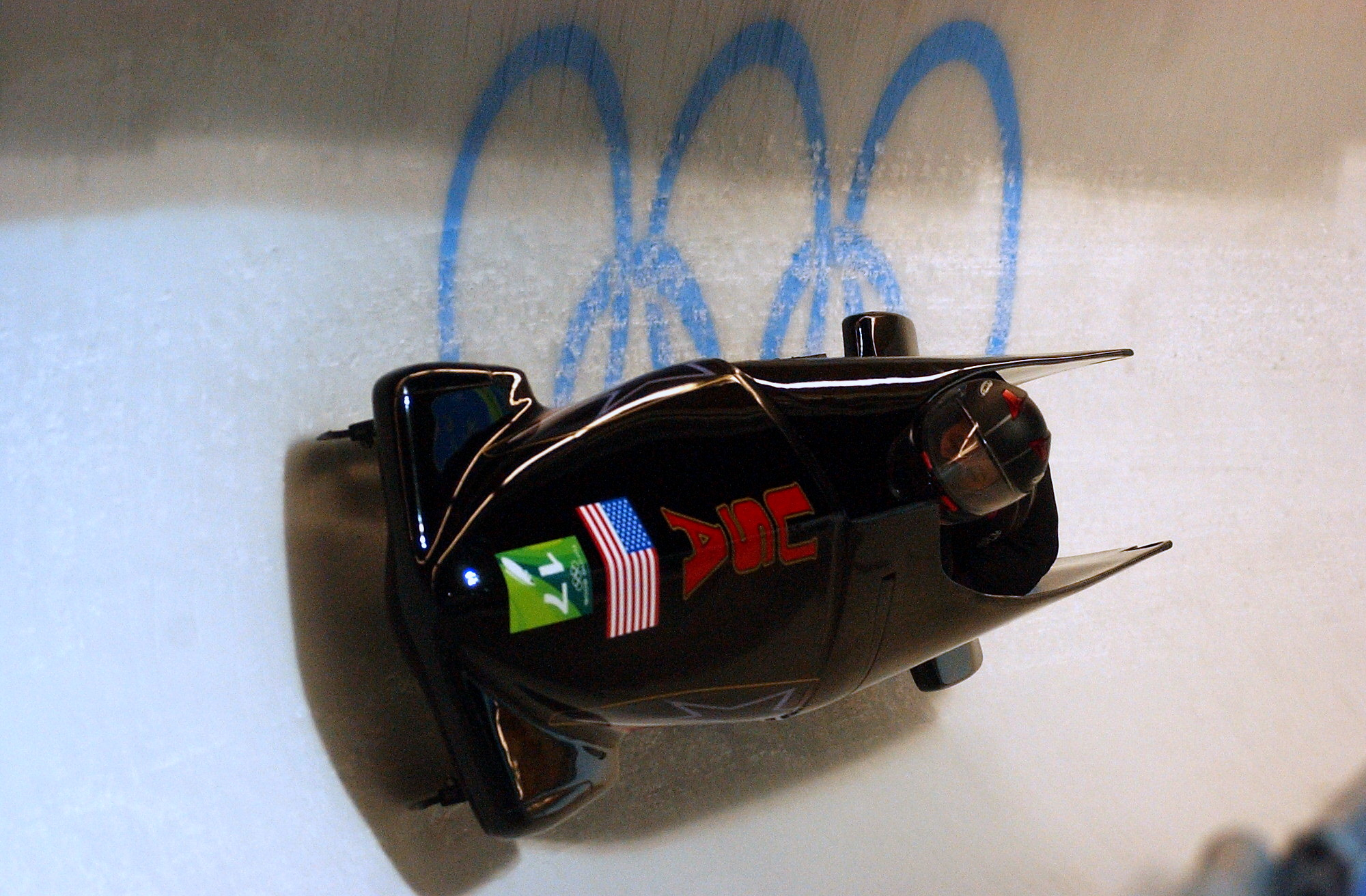 2-man sled during the 2006 Olympics in Turin Italy.